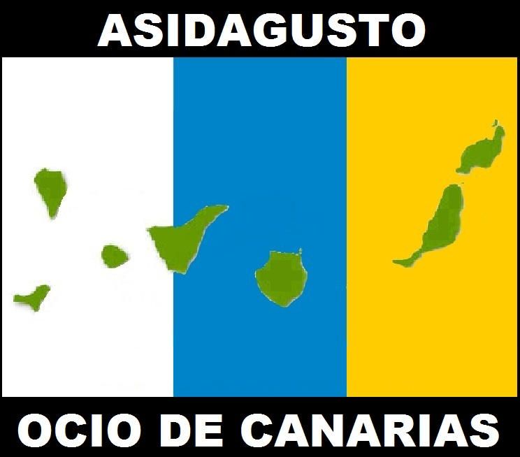 asidagusto All the leisure of the Canary Islands in one place